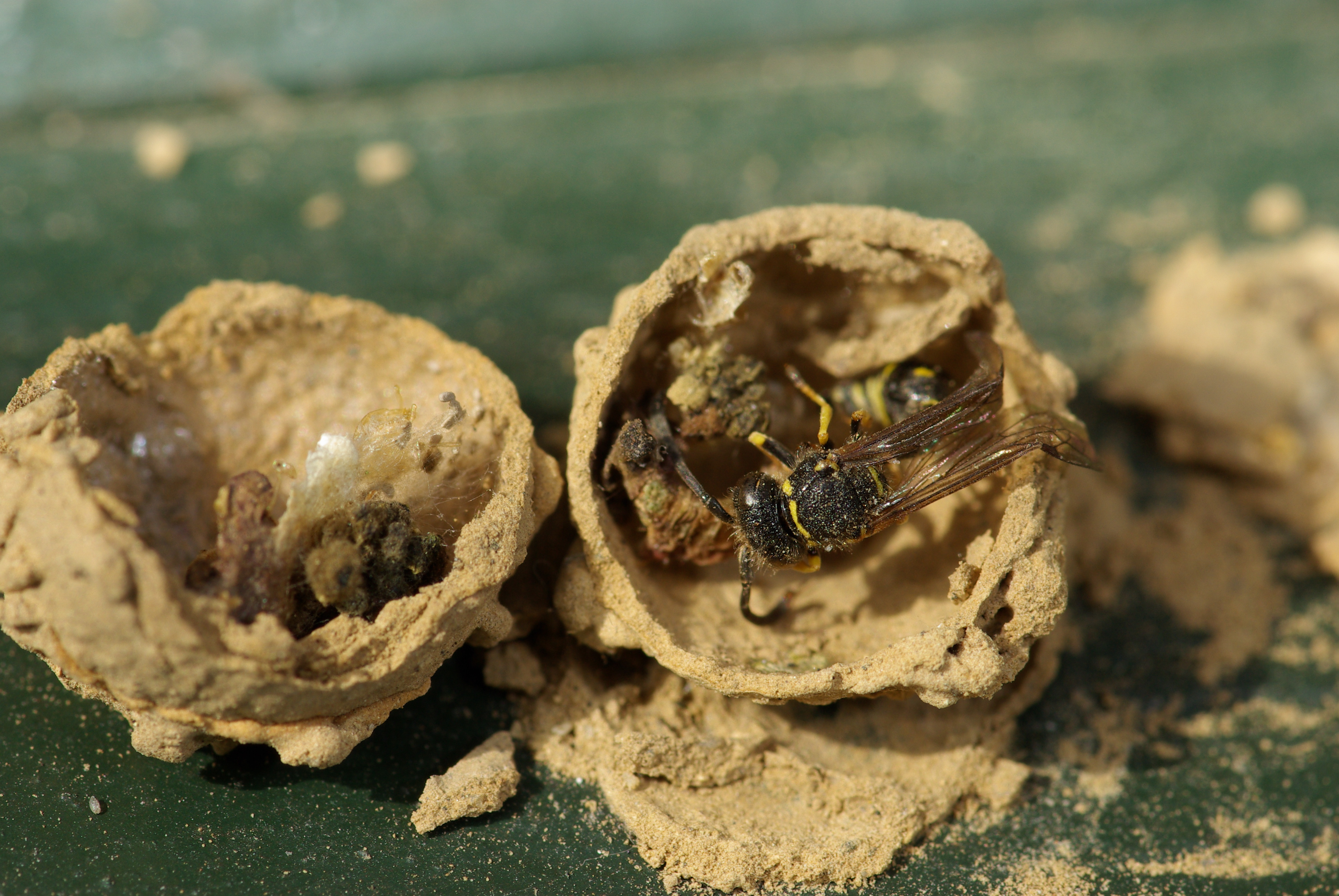 Potter wasp nest was fixed behind a shutter (Normandie; France). Inside, you can see a body of Eumenes pedunculatus and some caterpillars.